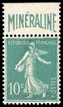 Postage stamp of France, Marianne type Semeuse camée, 10 centimes, 1927, with advertising coupon Mineraline